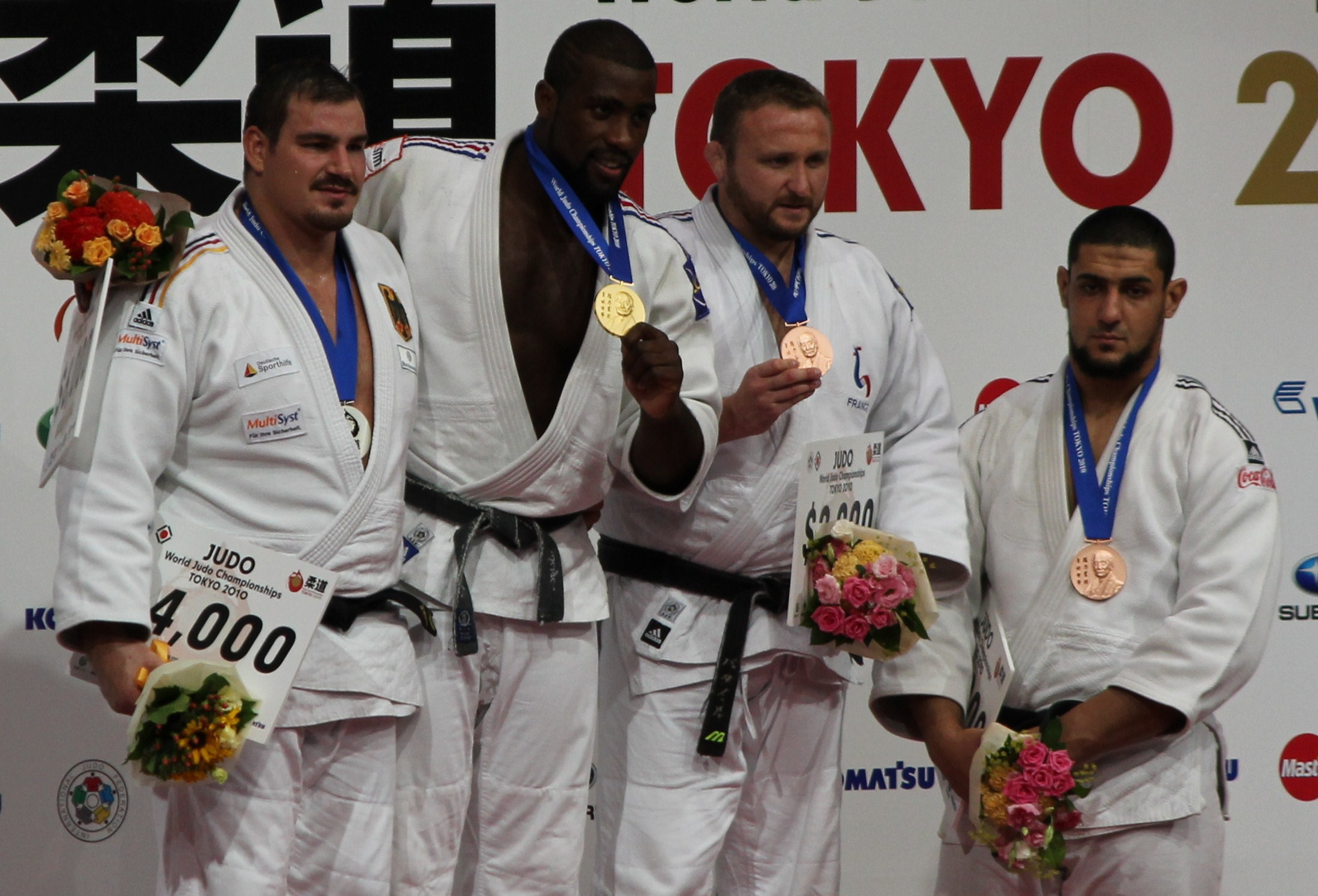 Podium of the +100kg category of the 2010 World Judo Championships held in Tokyo, Japan. From left to right : Andreas Toelzer (Germany), Teddy Riner (France), Matthieu Bataille (France), Islam El Shehaby (Egypt)